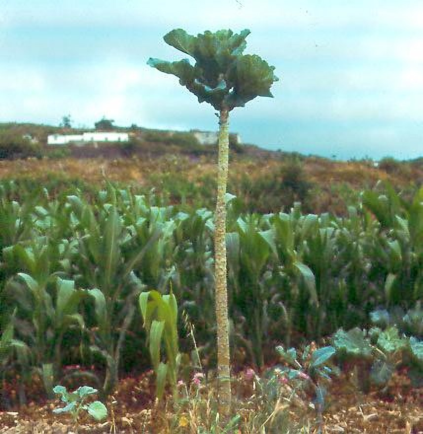 This "tree " growing Collard greens in the Canary Islands is a cultivar of Collard greens, Brassica oleracea, able to grow quite large due to the frost-free climate.